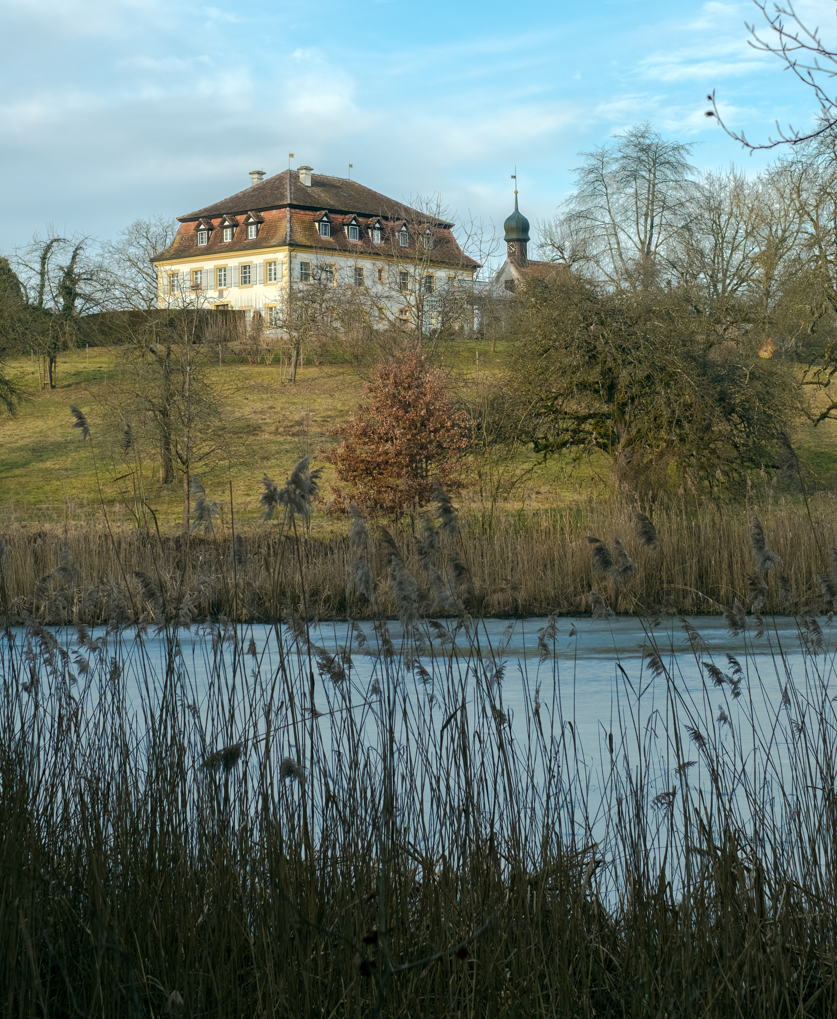 Manor house Killenberg, Salem-Mimmenhausen, district Bodenseekreis, Baden-Württemberg, Germany